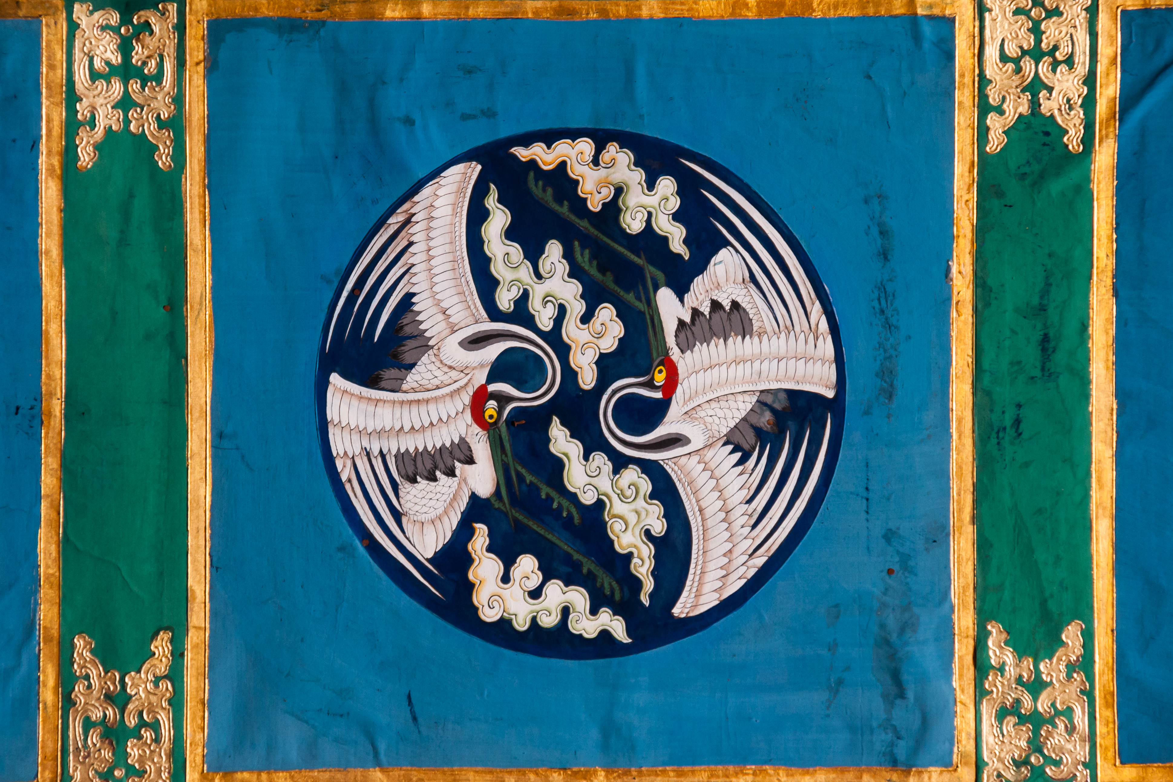 Beijing, China: Tapestry with two cranes in the Forbidden City.